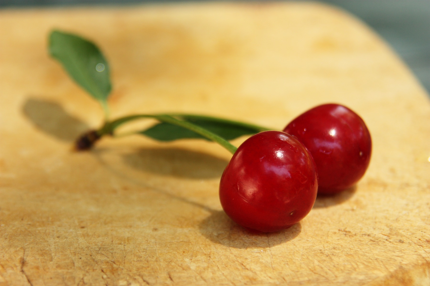 Sour cherry fruit